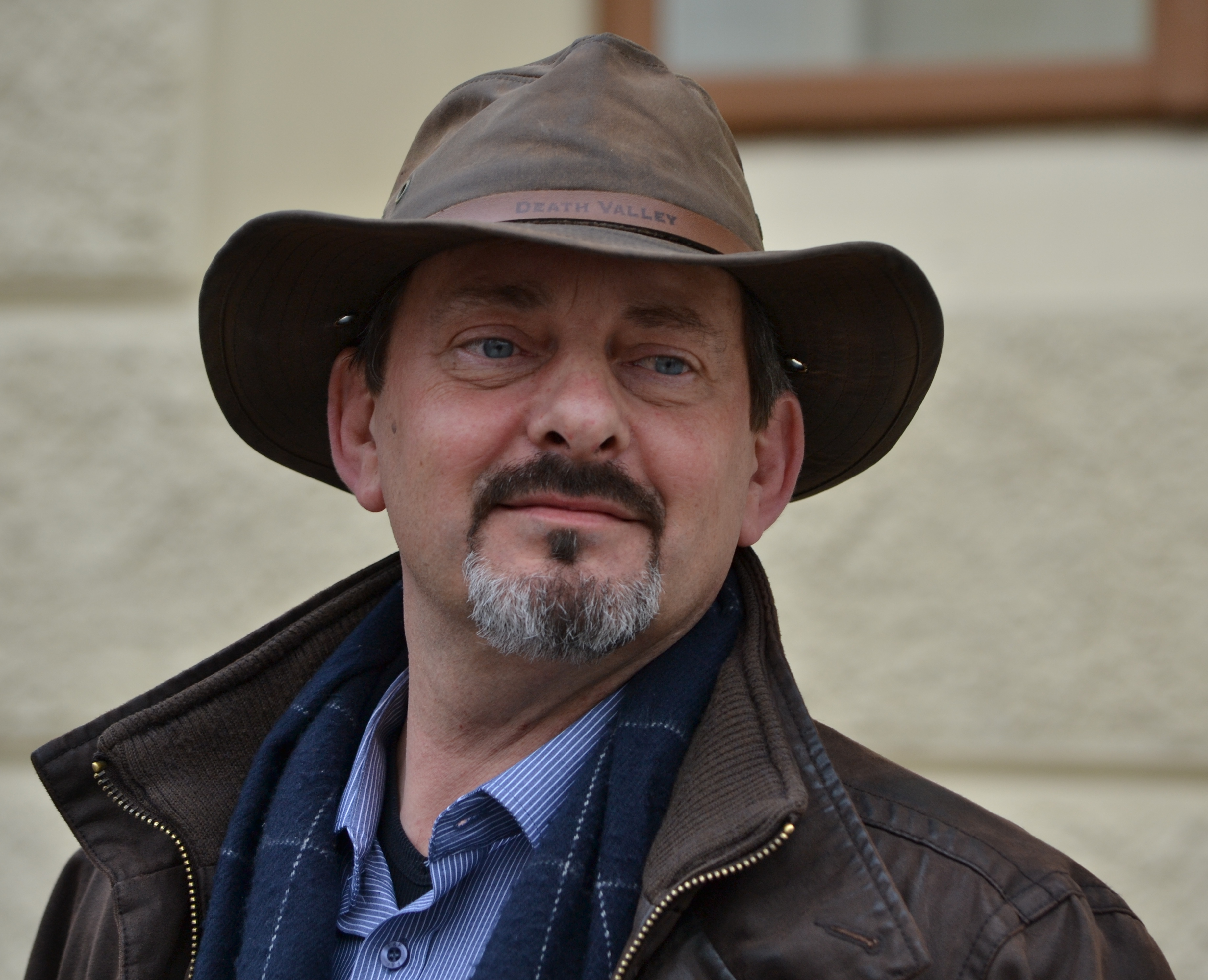 Otakar Brousek jr., Czech actor